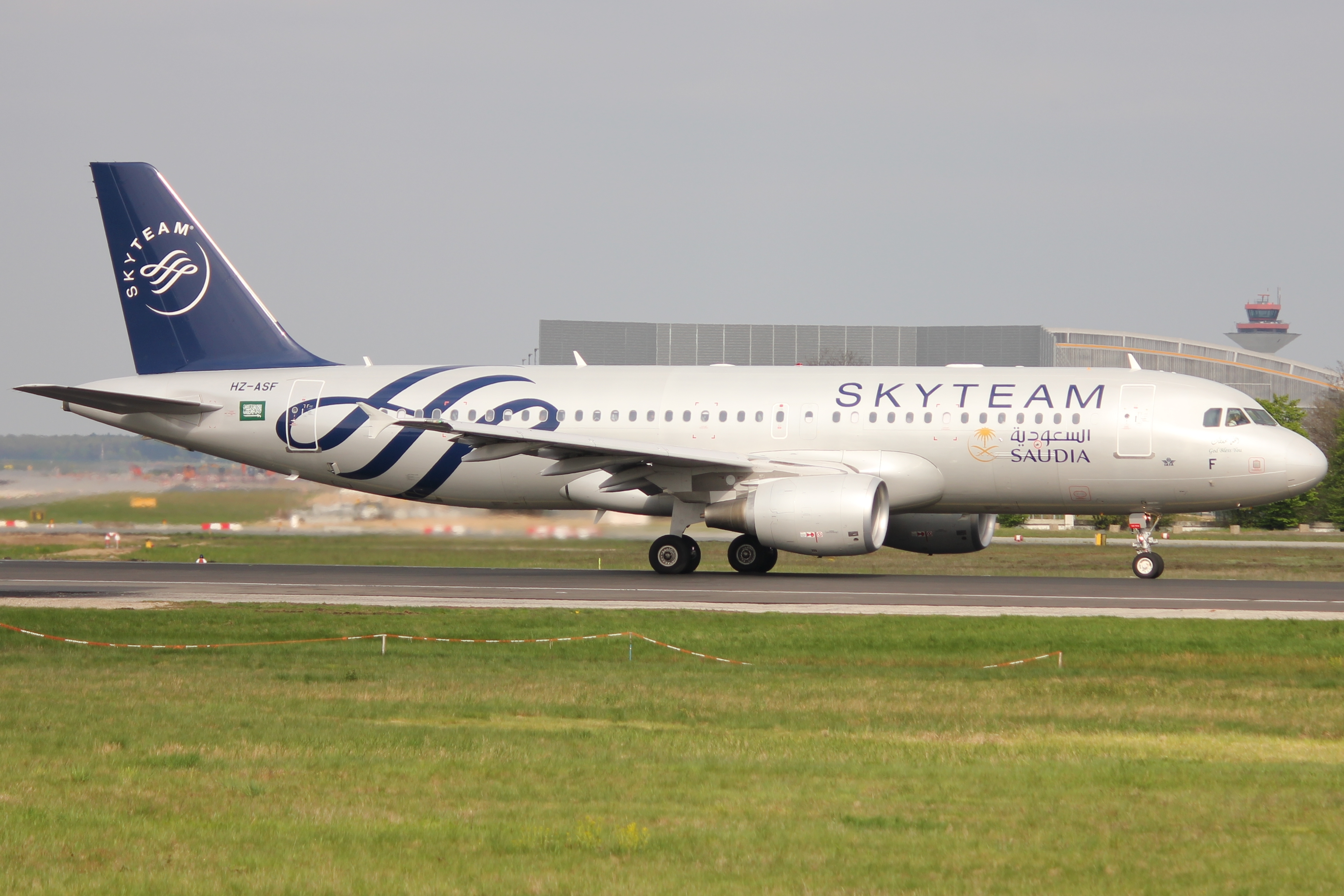 An Airbus A320 of Saudia in Skyteam livery taxiing for takeoff at Frankfurt Airport